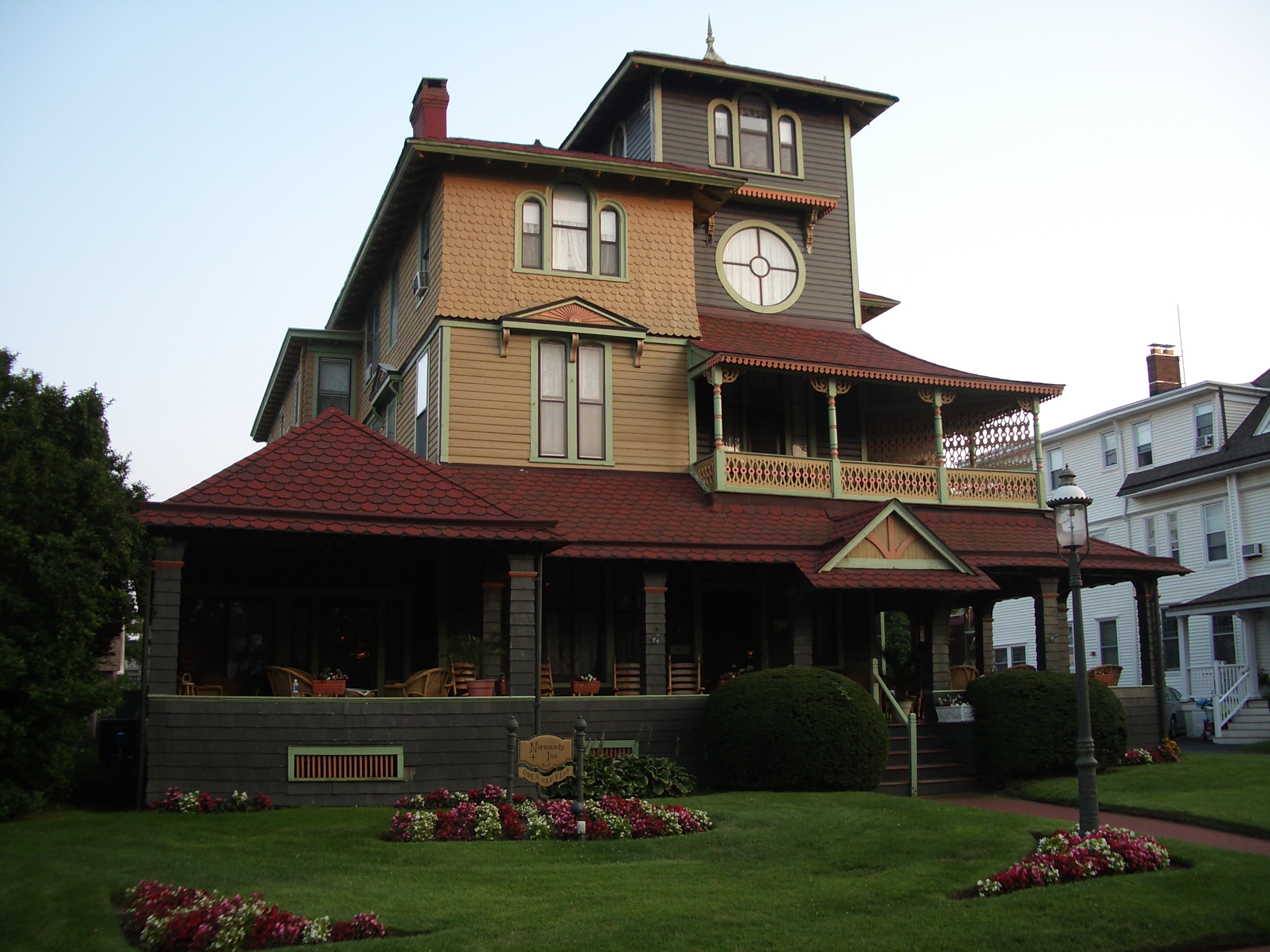 Audienried Cottage in Spring Lake, NJ